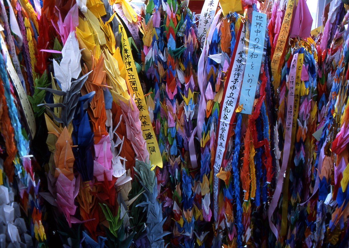 Paper cranes in the Peace Memorial Park, Hiroshima.